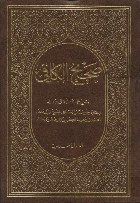 صورة غلاف كتاب "صحيح الكافي" الذي صدر في ثلاث أجزاء.